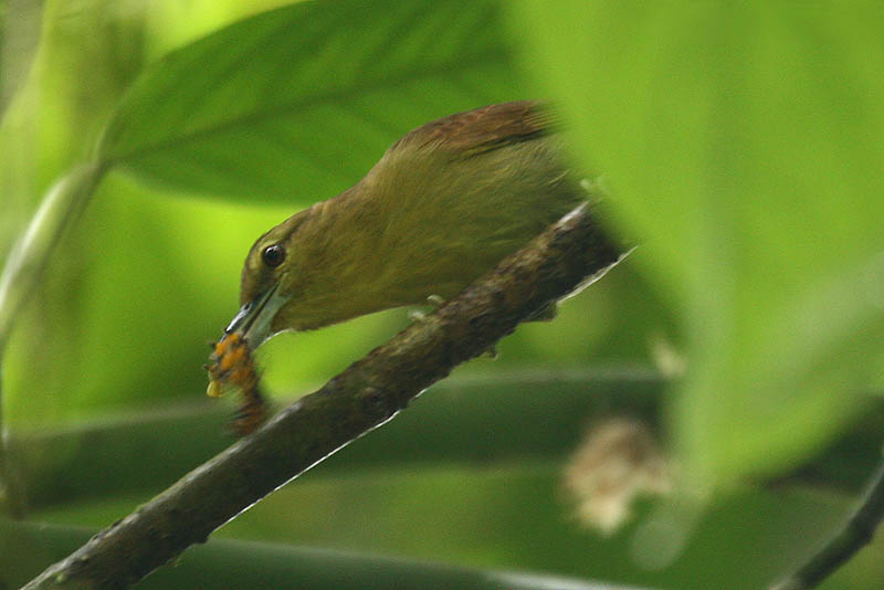 Russet Antshrike (Thamnistes anabatinus) at Milpe Bird Sanctuary, NW Ecuador.